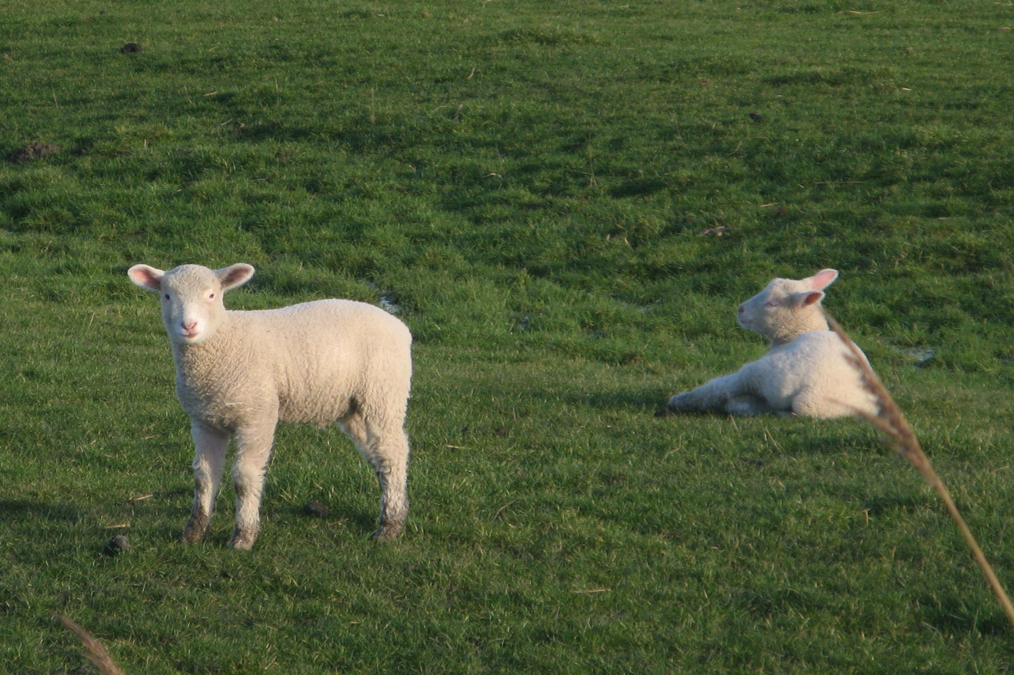 Lambs at a field in Wesseln in february